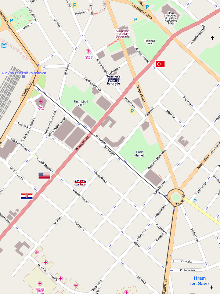 Map of riots after "Kosovo is Serbia" rally, held in Belgrade on February 21, 2008. Flags represent foreign embassies which were attacked. Dom Narodne skupštine Republike Srbije - Serbian National Assembly, where the rally was held Hram sv. Save - Temple of St. Sava, where the official prayer was given